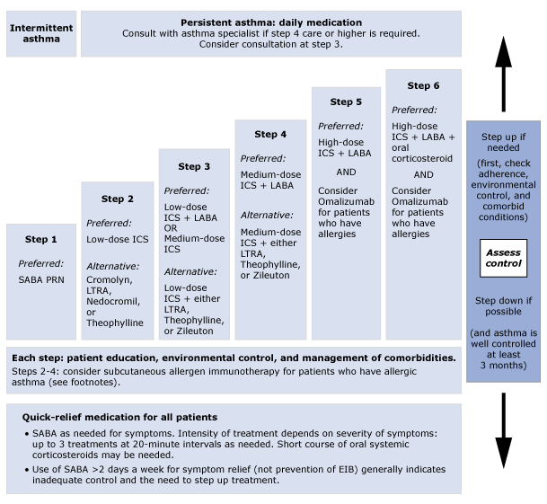 The stepwise approach is meant to assist, not replace, the clinical decision-making required to meet individual patient needs. If alternative treatment is used and response is inadequate, discontinue it and use the preferred treatment before stepping up. Zileuton is a less desirable alternative due to limited studies as adjunctive therapy and the need to monitor liver function. Theophylline requires monitoring of serum concentration levels. In step 6, before oral systemic corticosteroids are introduced, a trial of high-dose ICS + LABA + either LTRA, theophylline, or zileuton may be considered, although this approach has not been studied in clinical trials. Step 1, 2, and 3 preferred therapies are based on Evidence A; step 3 alternative therapy is based on Evidence A for LTRA, Evidence B for theophylline, and Evidence D for zileuton. Step 4 preferred therapy is based on Evidence B, and alternative therapy is based on Evidence B for LTRA and theophylline and Evidence D for zileuton. Step 5 preferred therapy is based on Evidence B. Step 6 preferred therapy is based on (EPR-2 1997) and Evidence B for omalizumab. Immunotherapy for steps 2-4 is based on Evidence B for house-dust mites, animal danders, and pollens; evidence is weak or lacking for molds and cockroaches. Evidence is strongest for immunotherapy with single allergens. The role of allergy in asthma is greater in children than in adults. Clinicians who administer immunotherapy or omalizumab should be prepared and equipped to identify and treat anaphylaxis that may occur.